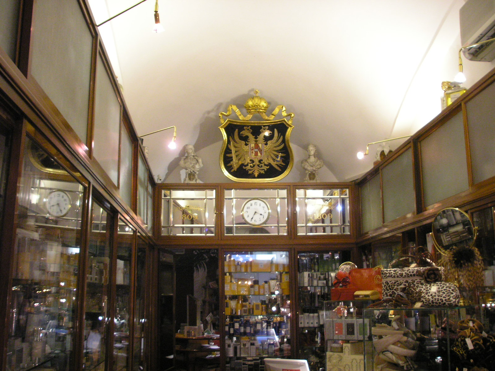 Interior of J.B. Filz Sohn perfume shop at Graben 13 in Vienna.